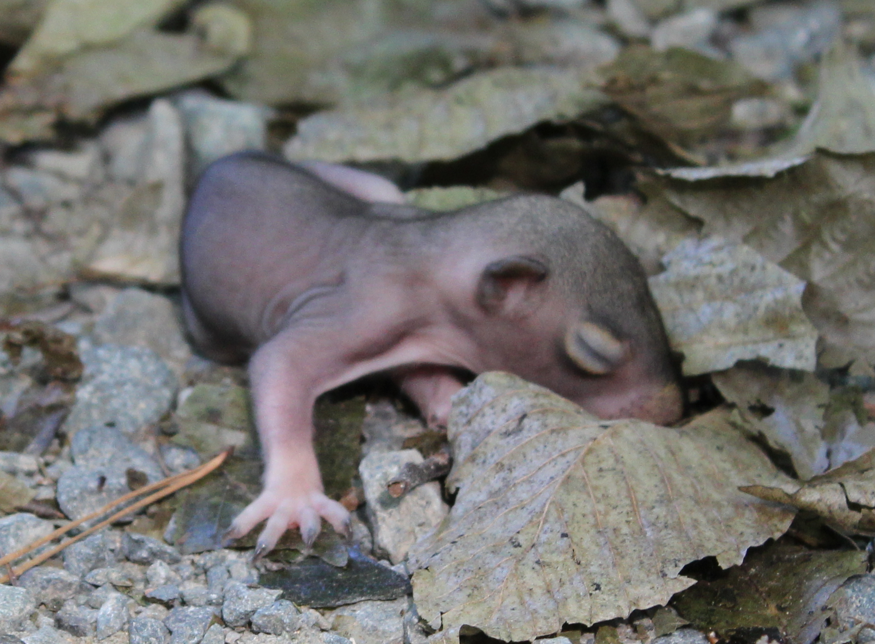 Two juvenile eastern gray squirrels (Sciurus carolinensis) on leaves and gravel